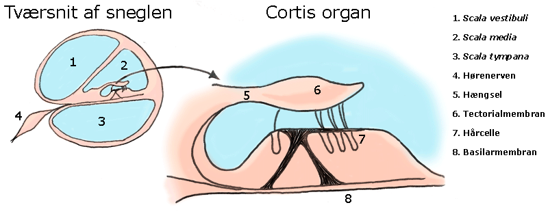 Drawing of Cortis organ in the ear.